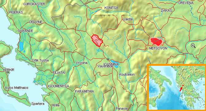 Wine regions in Epirus (Zitsa and Metsovo) Basic map is from DEMIS [1]